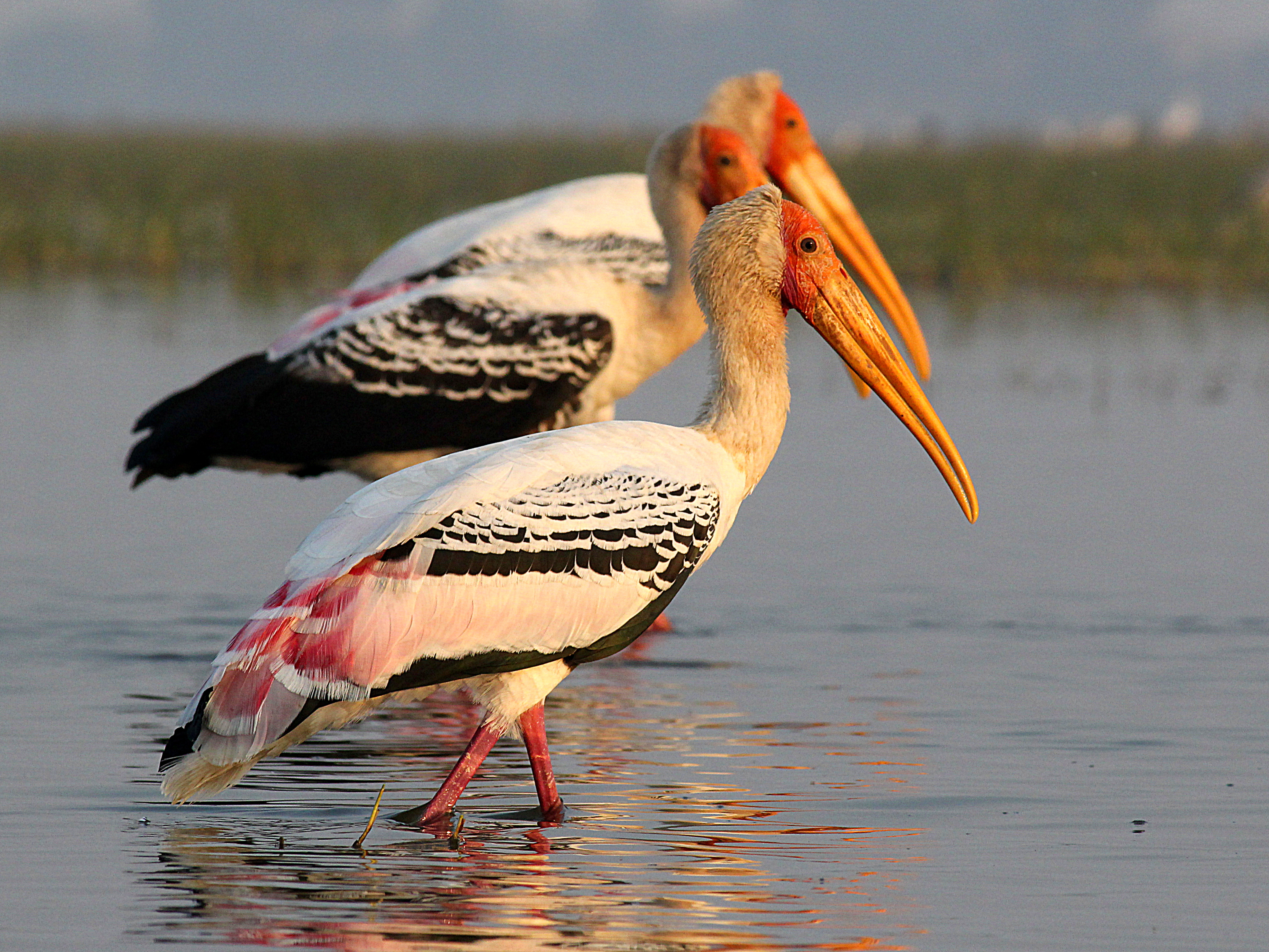 Painted Storks (Mycteria leucocephala) at Bhigwan, India